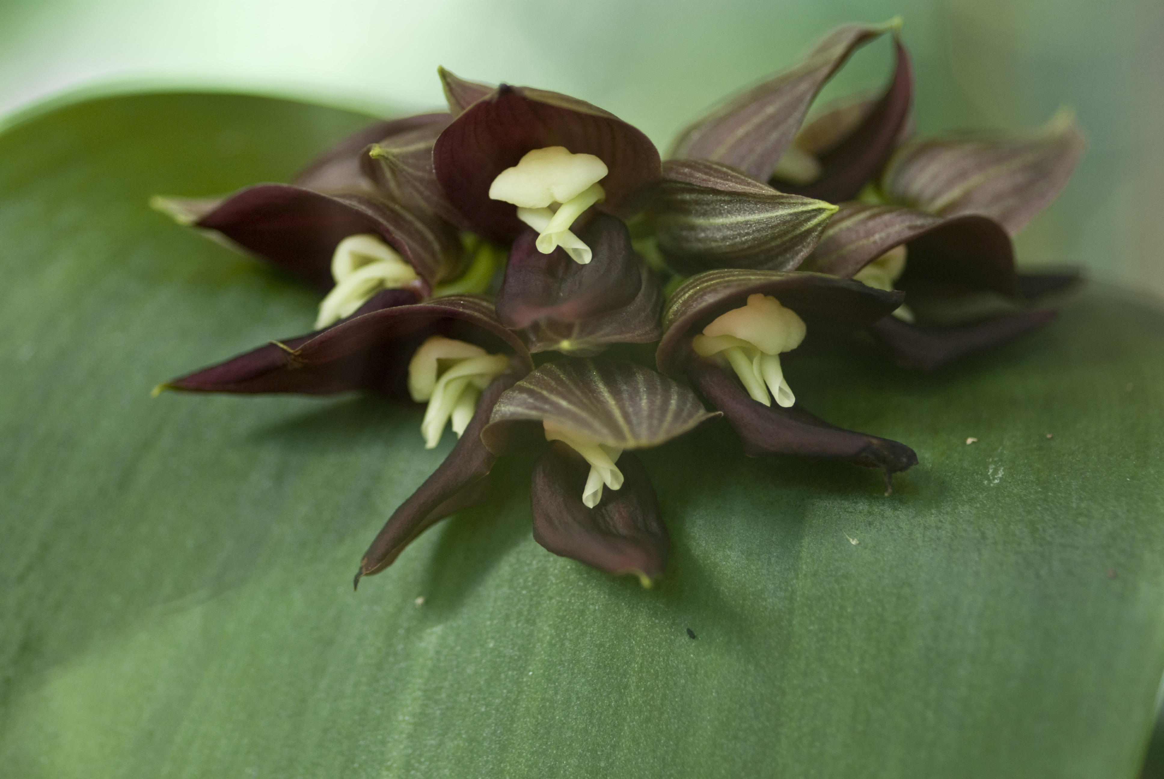 Pleurothallis teaguei Luer (1996) syn.: Acronia teaguei (Luer) Luer (2005)